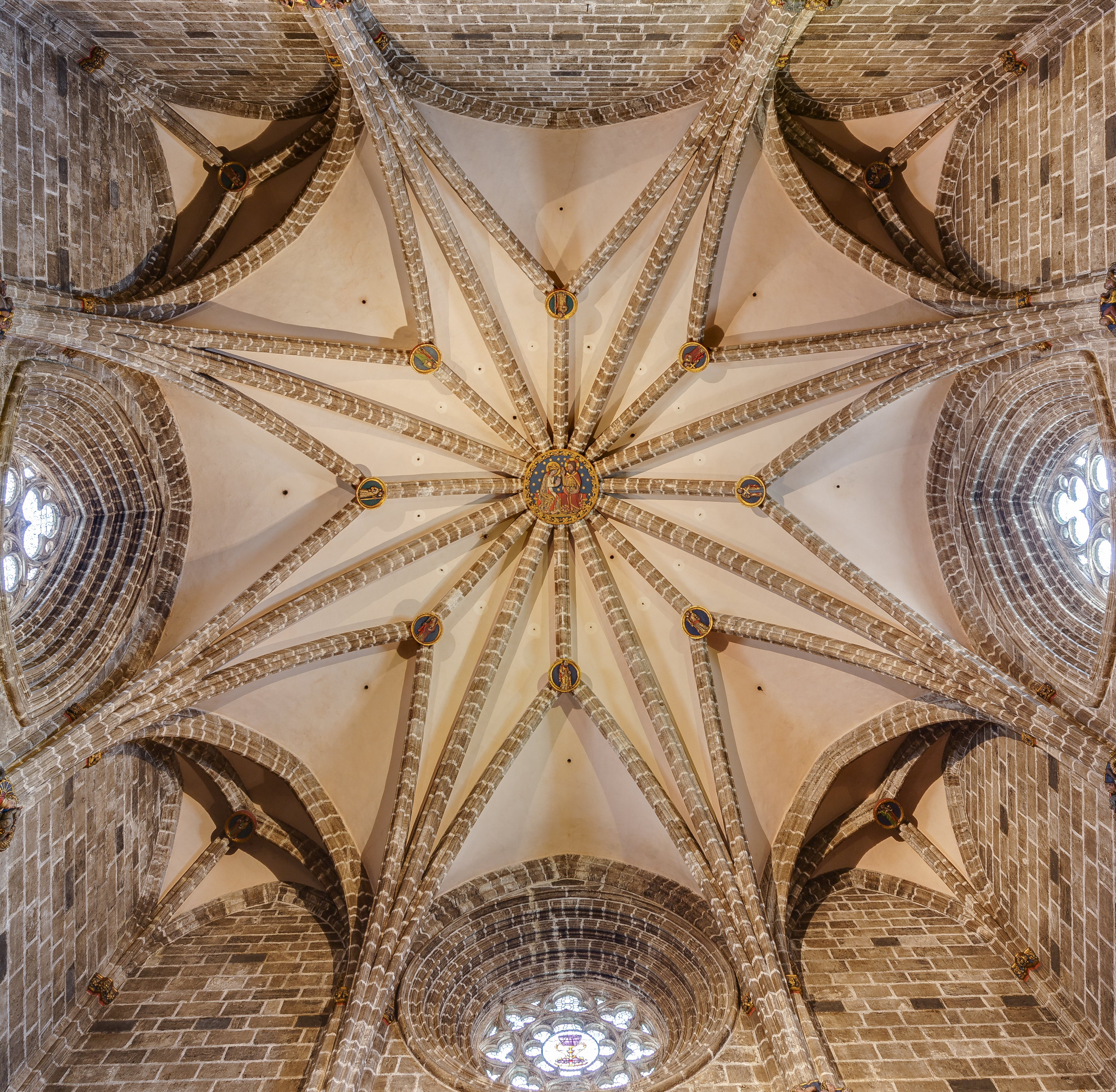 Chapel of the Holy Chalice, Valencia Cathedral, Valencia, Spain